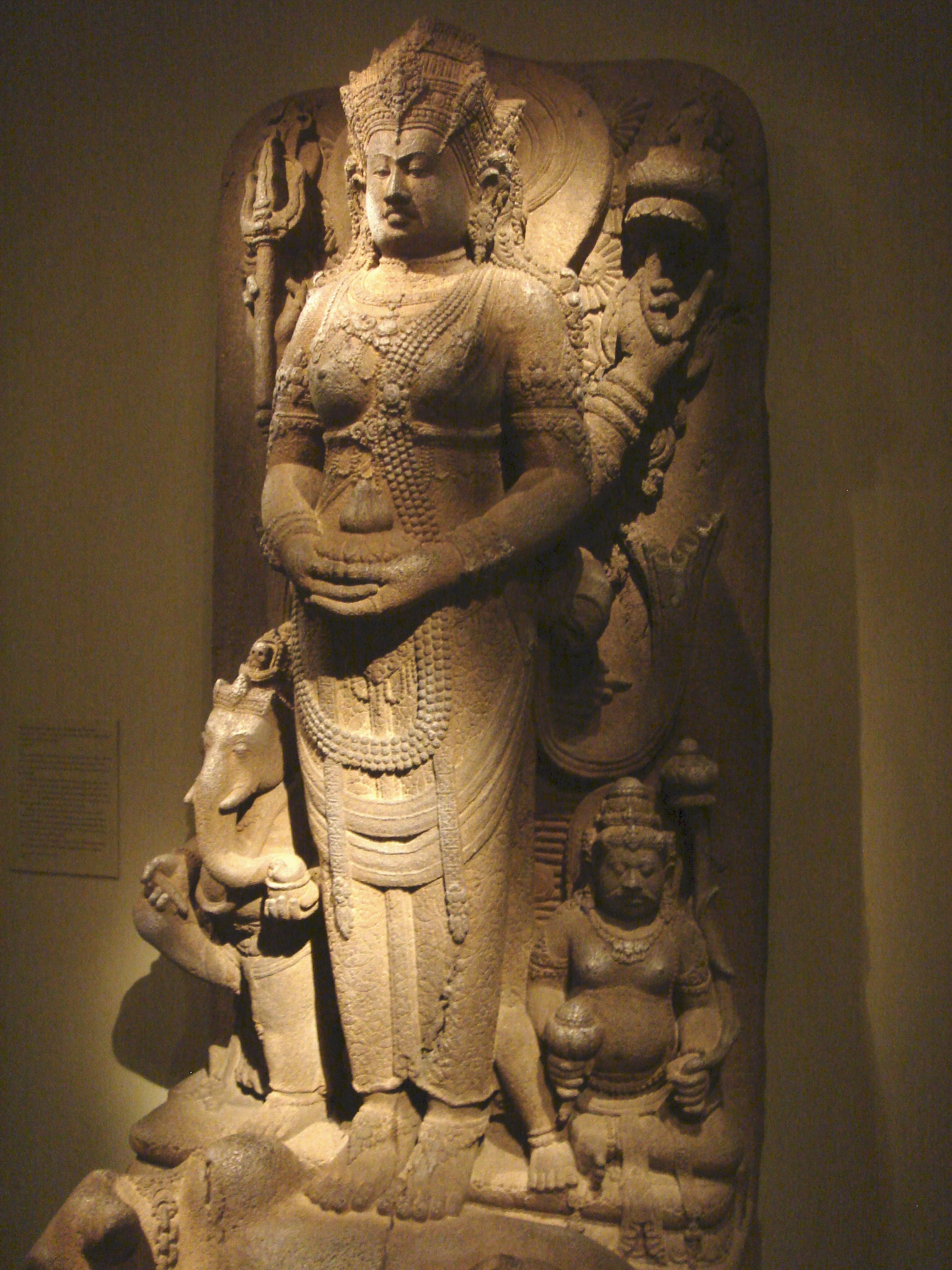 Posthumous of a Queen as Parvati: Java, Majapahit Kingdom, 14th century, Eastern Javanese Period An unidentified queen is depicted as Parvati, standing in an usual yogic posture. Parvati is standing on Nandi bull, the vehicle of her husband Shiva. She is accompanied by her godly sons Ganesha - the elephant headed god (on the left) and Kartikeya, the god of war(on her right). see [1]